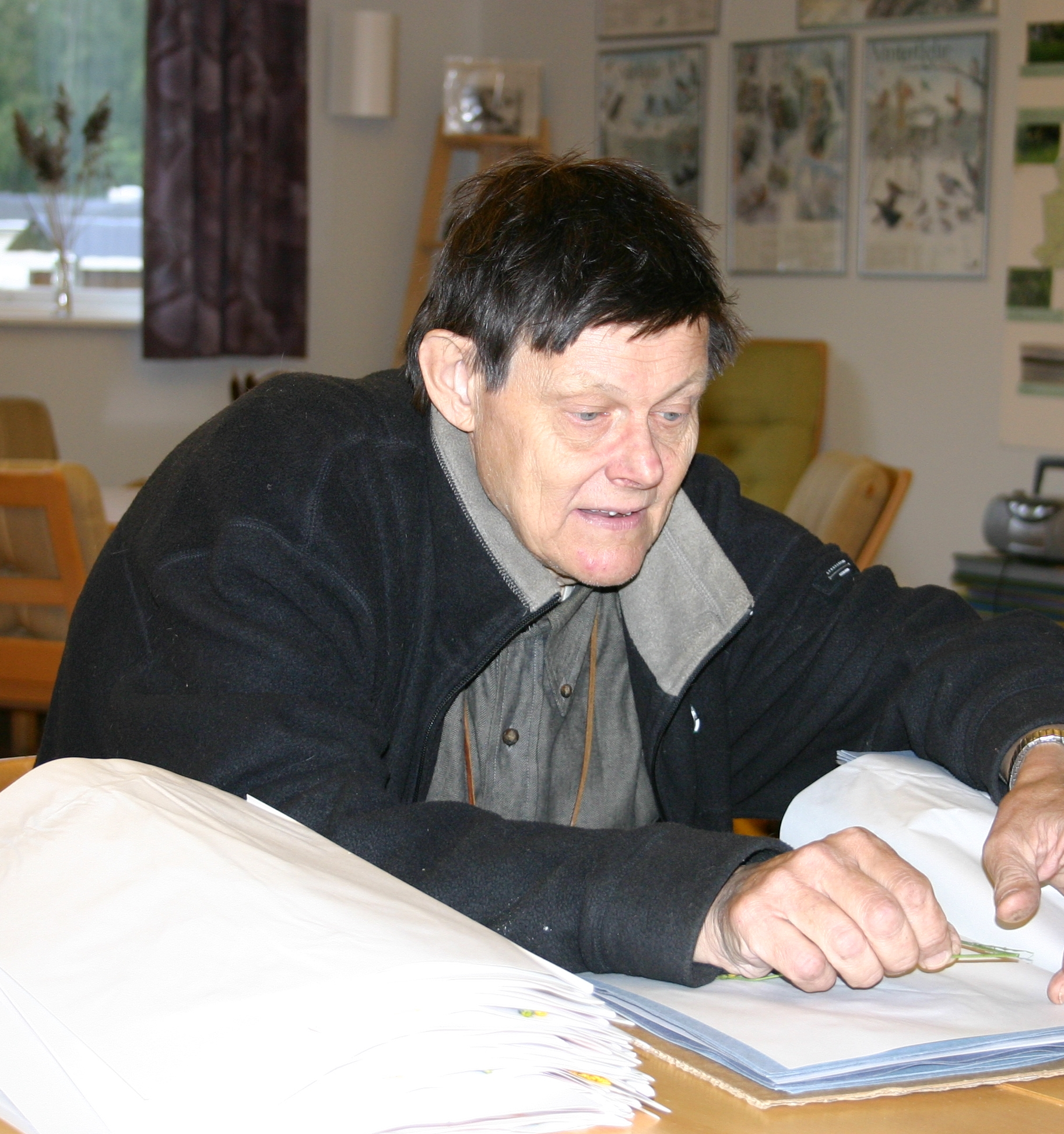 Thomas Karlsson (botanist, 1945 - 2020), Lund, Sweden.